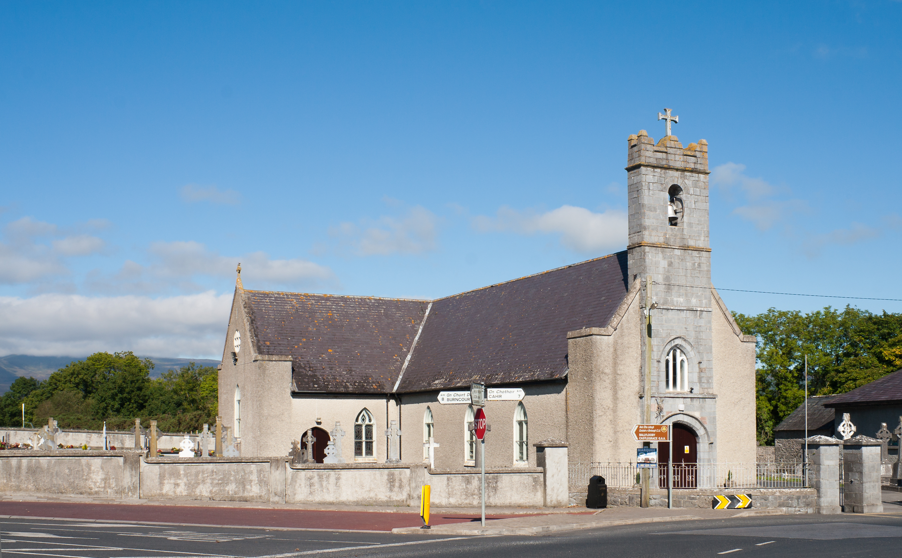 South-east view of the Roman Catholic church of Our Lady and St. Kieran.